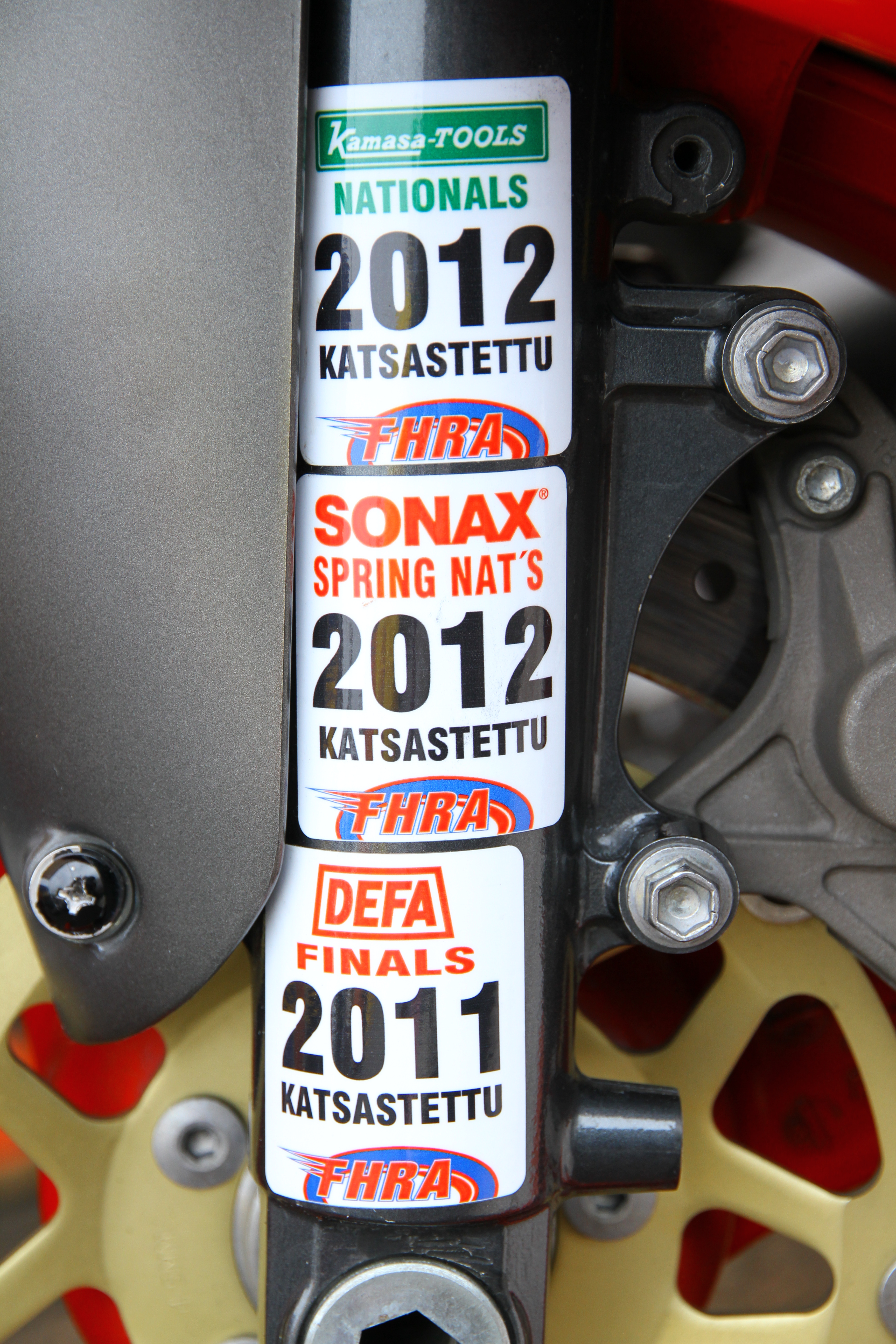 FHRA Kamasa Drag Race Week at Alastaro Circuit, Finland.